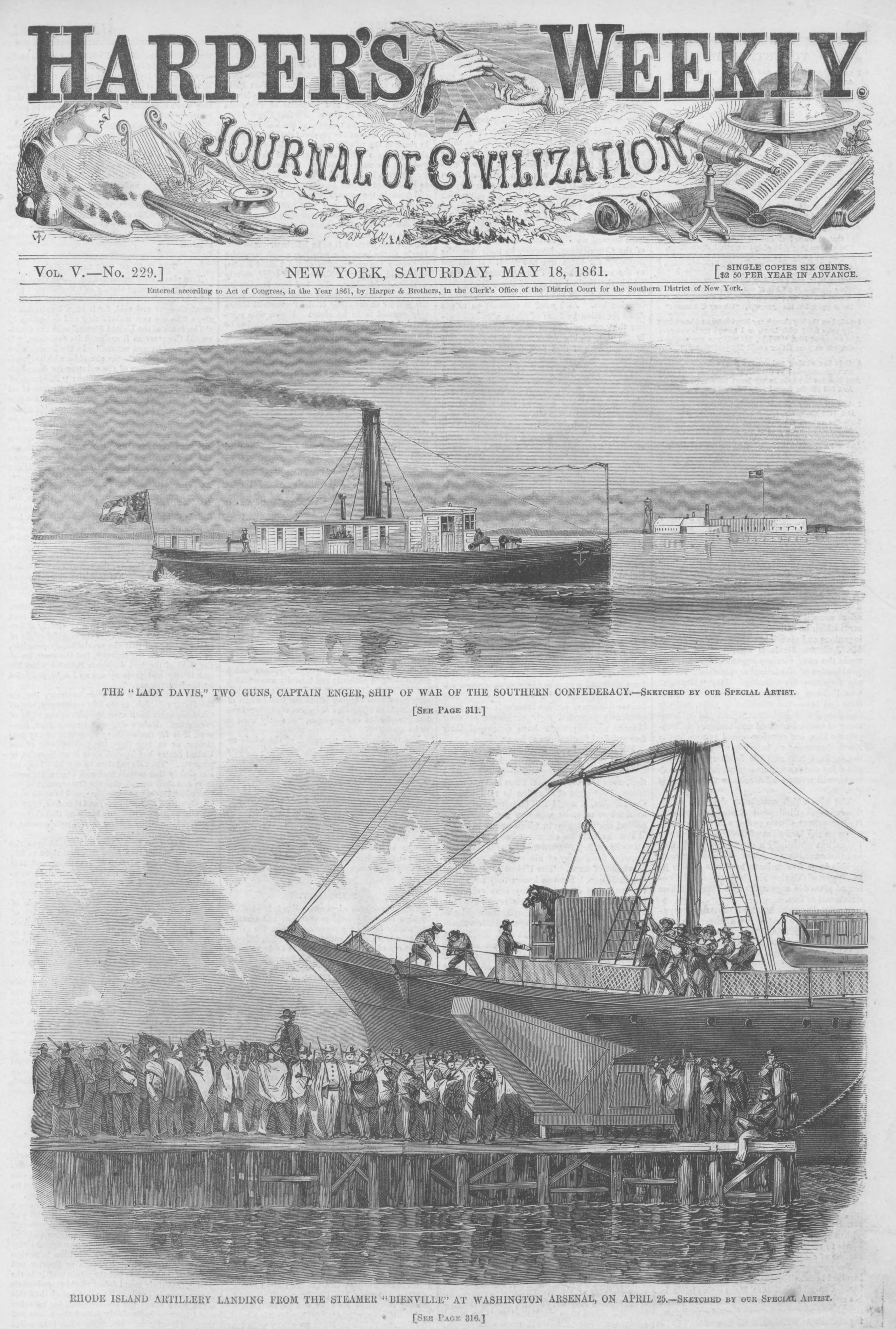 Top Harpers Weekly Sketch May 18, 1861 of CSS Lady Davis